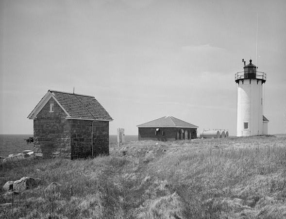 Great Duck Island Light Station, At southern tip of Great Duck Island southeast of , Frenchboro vicinity (Hancock County, Maine) cropped This file comes from the Historic American Buildings Survey (HABS), Historic American Engineering Record (HAER) or Historic American Landscapes Survey (HALS). These are programs of the National Park Service established for the purpose of documenting historic places. Records consist of measured drawings, archival photographs, and written reports. When reusing please credit: Library of Congress, Prints & Photographs Division, ME,5-FREN.V,1-2 This tag does not indicate the copyright status of the attached work. A normal copyright tag is still required. See Commons:Licensing. This work is in the public domain in the United States because it is a work prepared by an officer or employee of the United States Government as part of that person’s official duties under the terms of Title 17, Chapter 1, Section 105 of the US Code. Note: This only applies to original works of the Federal Government and not to the work of any individual U.S. state, territory, commonwealth, county, municipality, or any other subdivision. This template also does not apply to postage stamp designs published by the United States Postal Service since 1978. (See § 313.6(C)(1) of Compendium of U.S. Copyright Office Practices). It also does not apply to certain US coins; see The US Mint Terms of Use. This file has been identified as being free of known restrictions under copyright law, including all related and neighboring rights. Object location44° 08′ 32″ N, 68° 14′ 46″ W